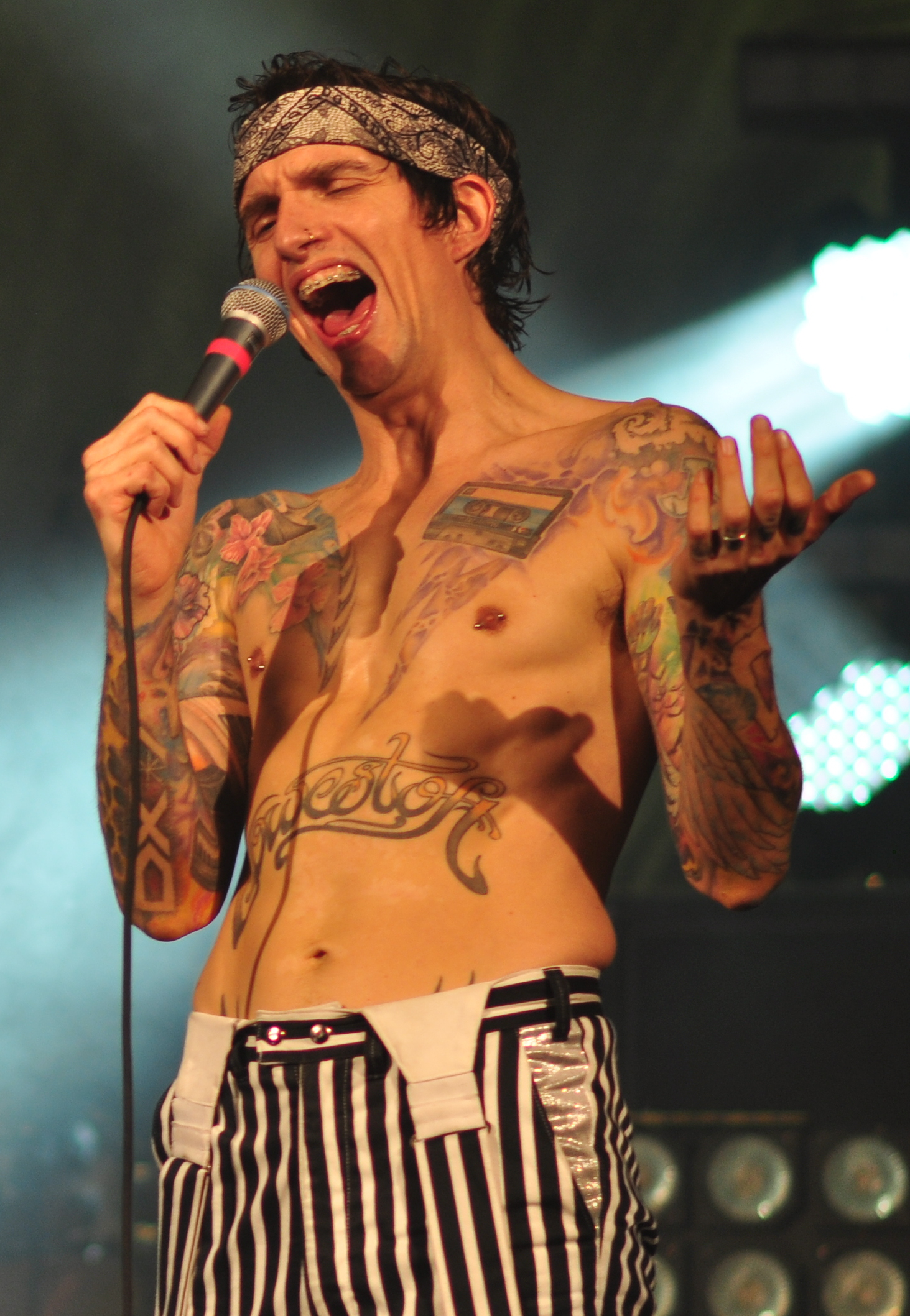 Justin Hawkins of The Darkness performing at the Neptune Theater in Seattle, Washington, October 15, 2015.